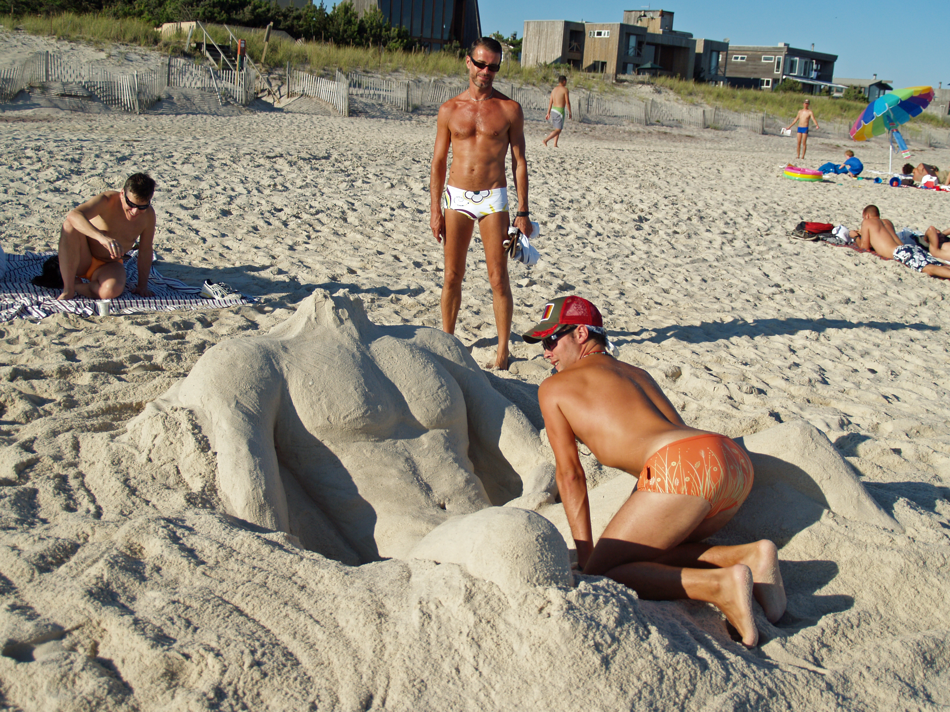 A man works on a sand sculpture on a Fire Island Pines beach.